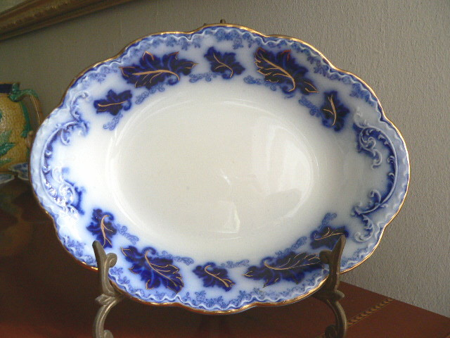 Gilded flow blue open server in the "Normandy" pattern, manufactured c. 1890 by Staffordshire potter Johnson Brothers.